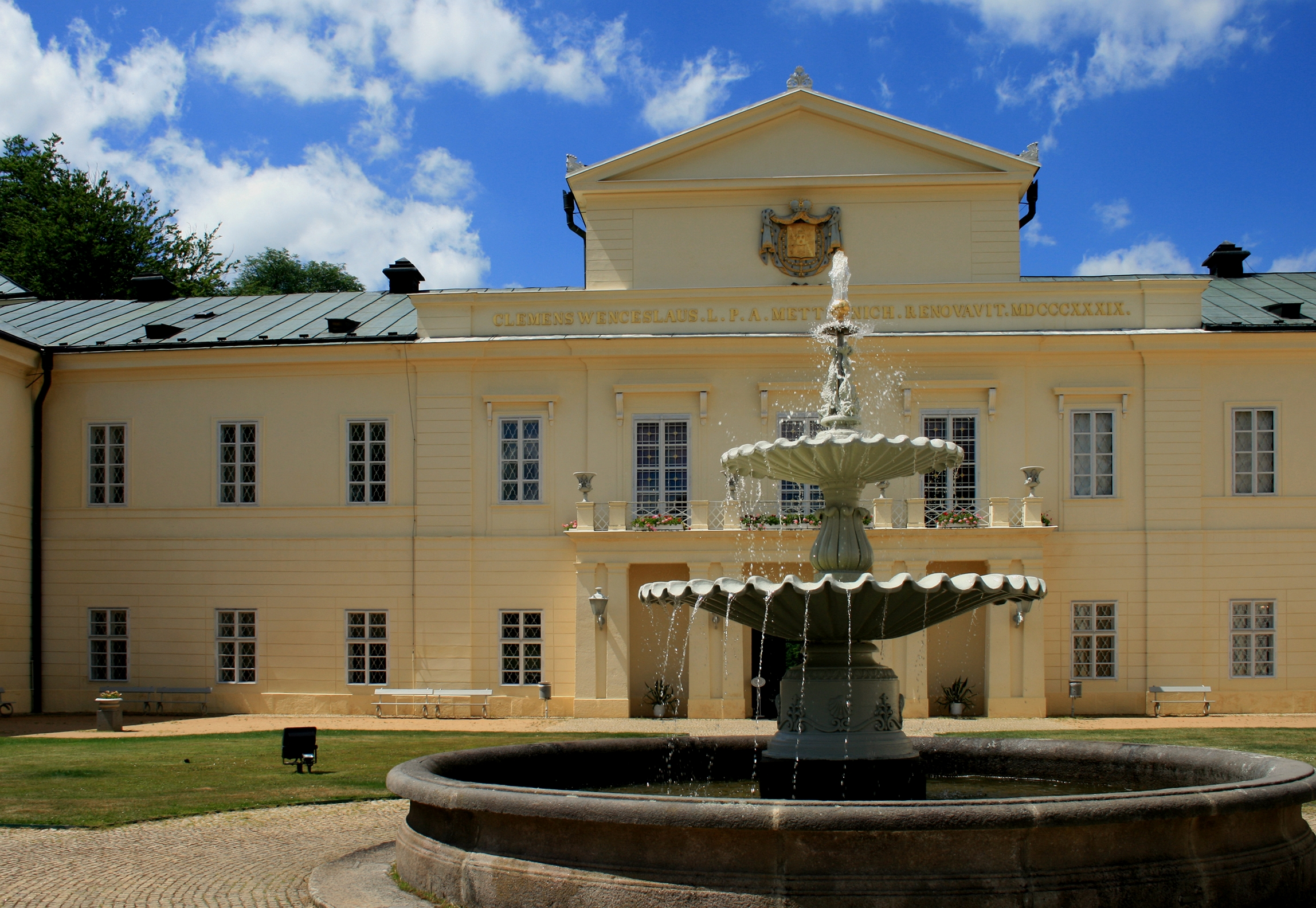 Castle Kynžvart near Mariánské Lázně in west of Czech republic